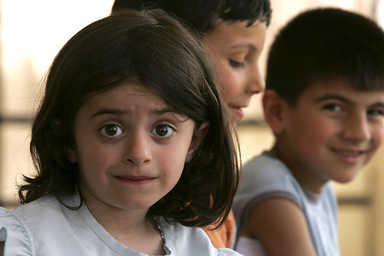 Assyrian children